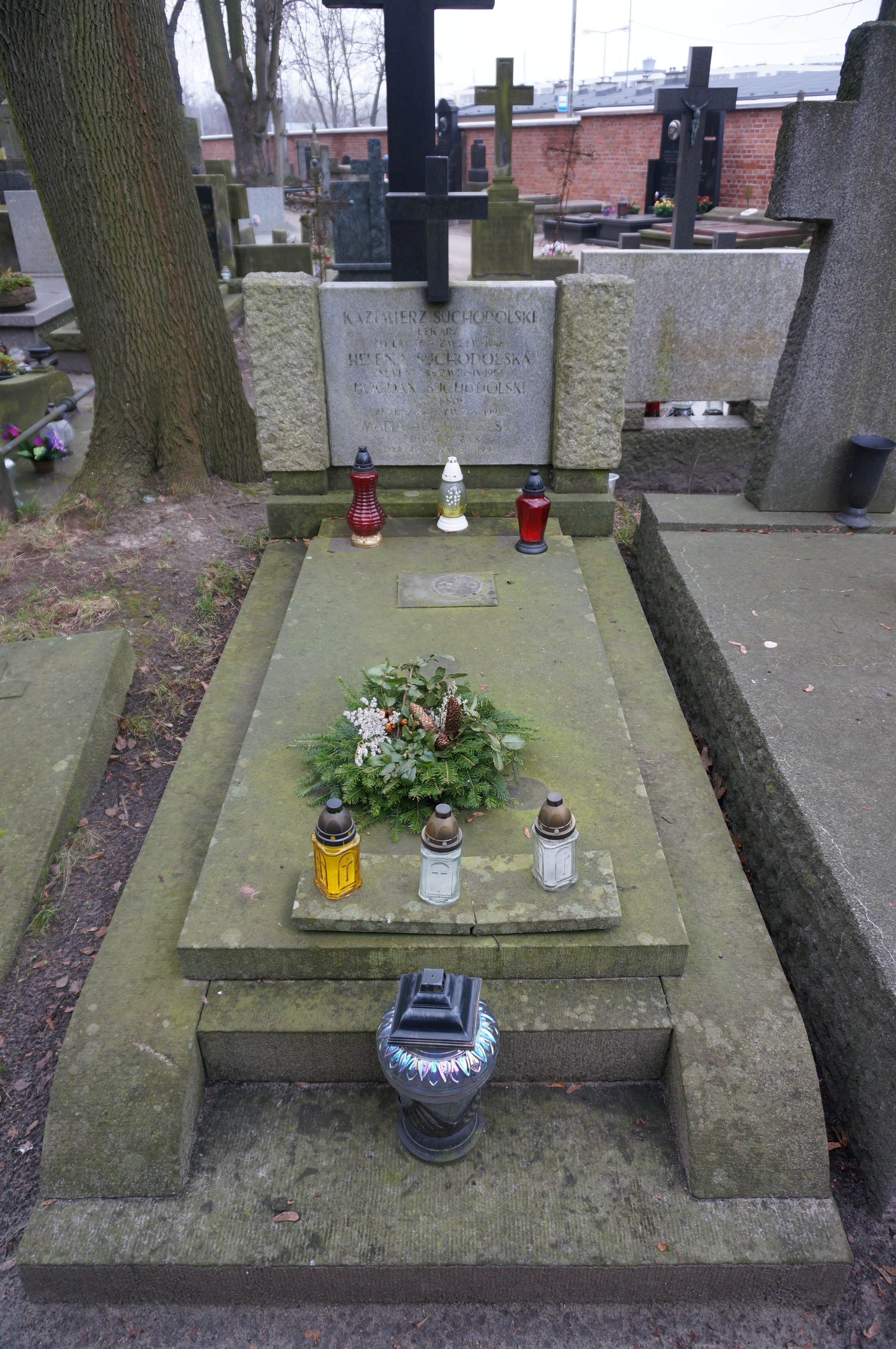 The grave of Bogdan Suchodolski at the Powązki Cemetery (section T, row 1, grave 6)